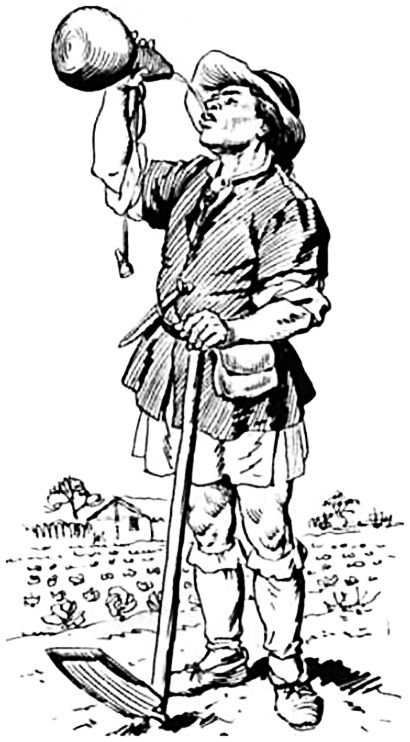 Portuguese Settler - XVI Century